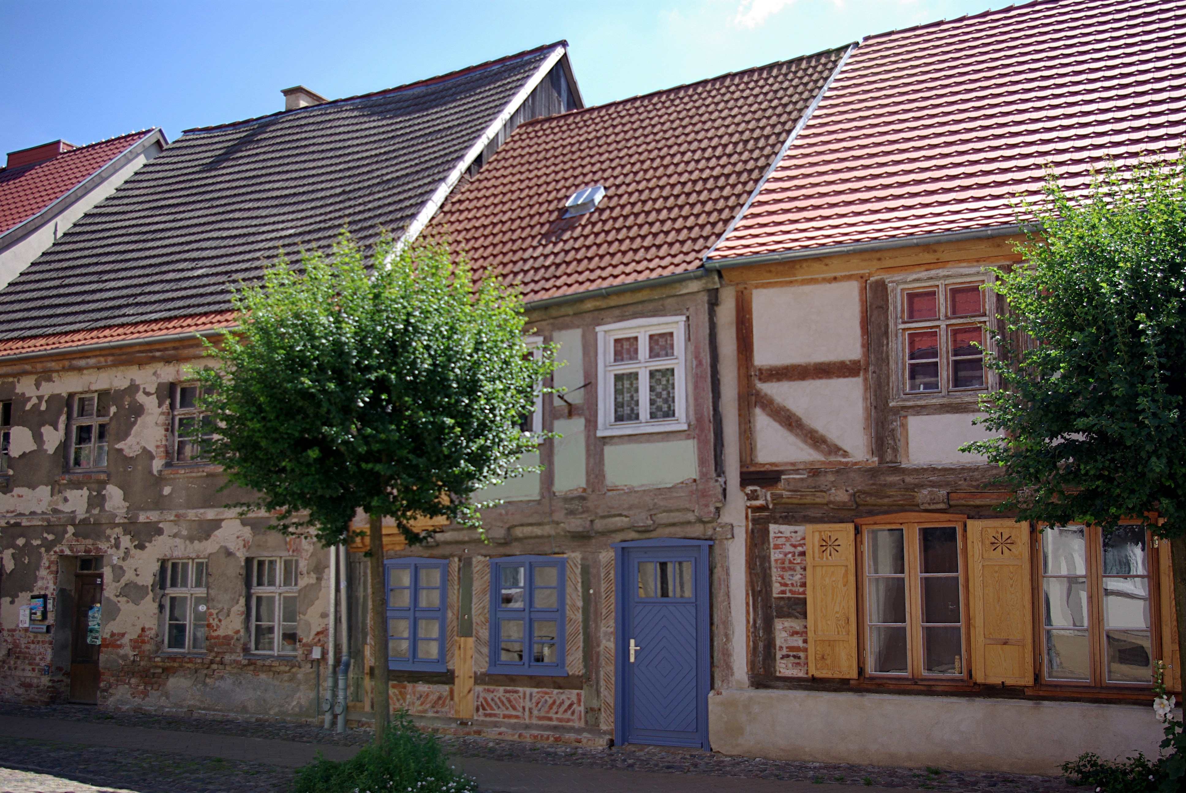 Kremmen in Brandenburg. The house Dammstraße 20 is a listed building.